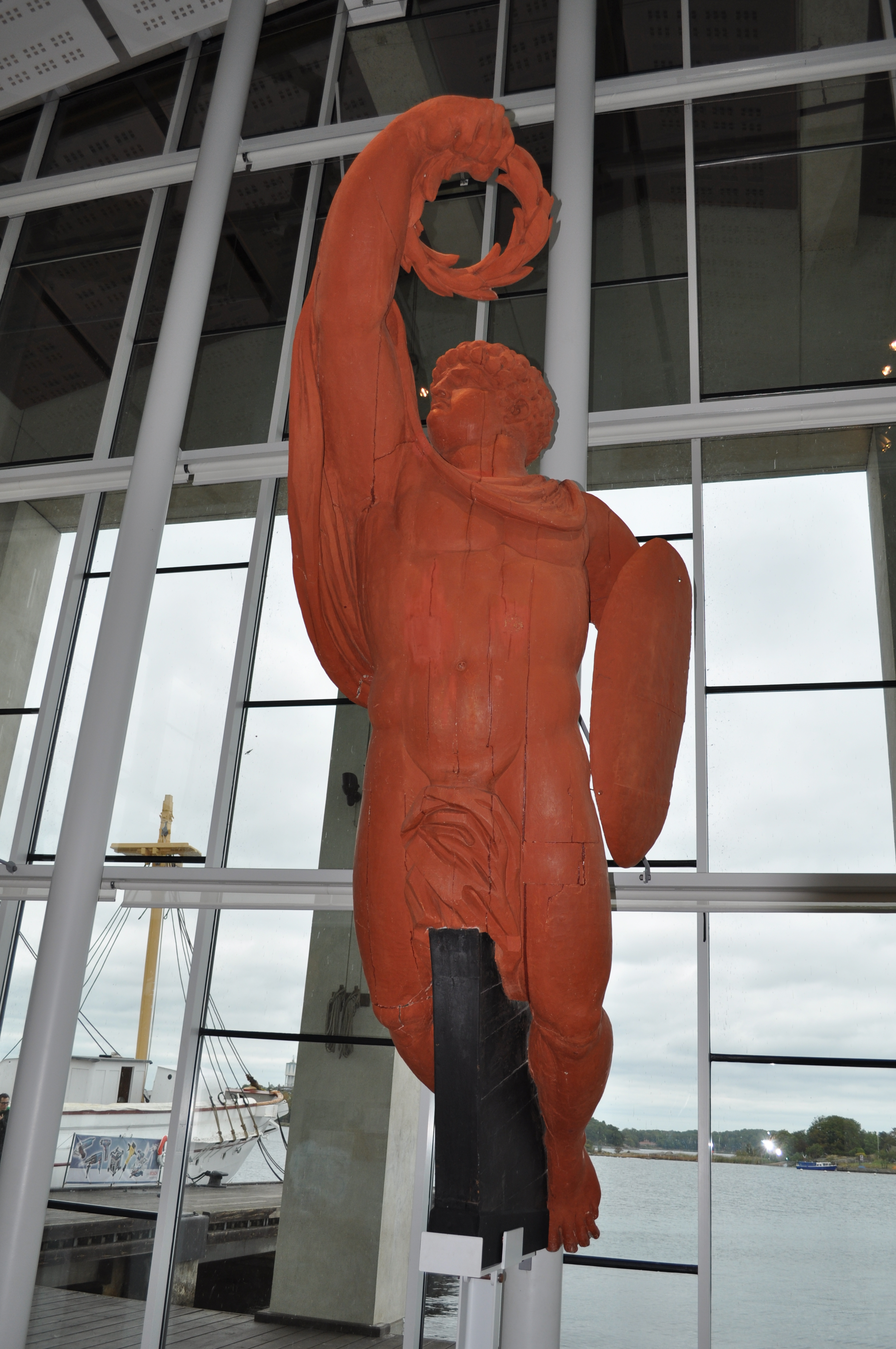 Figurehead Äran made by Johan Törnström 1788 for the ship of the line Äran (1784), Marinmuseum Karlskrona